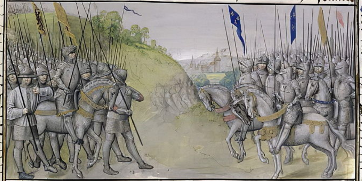 Ms 659 f.204 r. The French Army Defeats the Flemish at Cassel in 1328